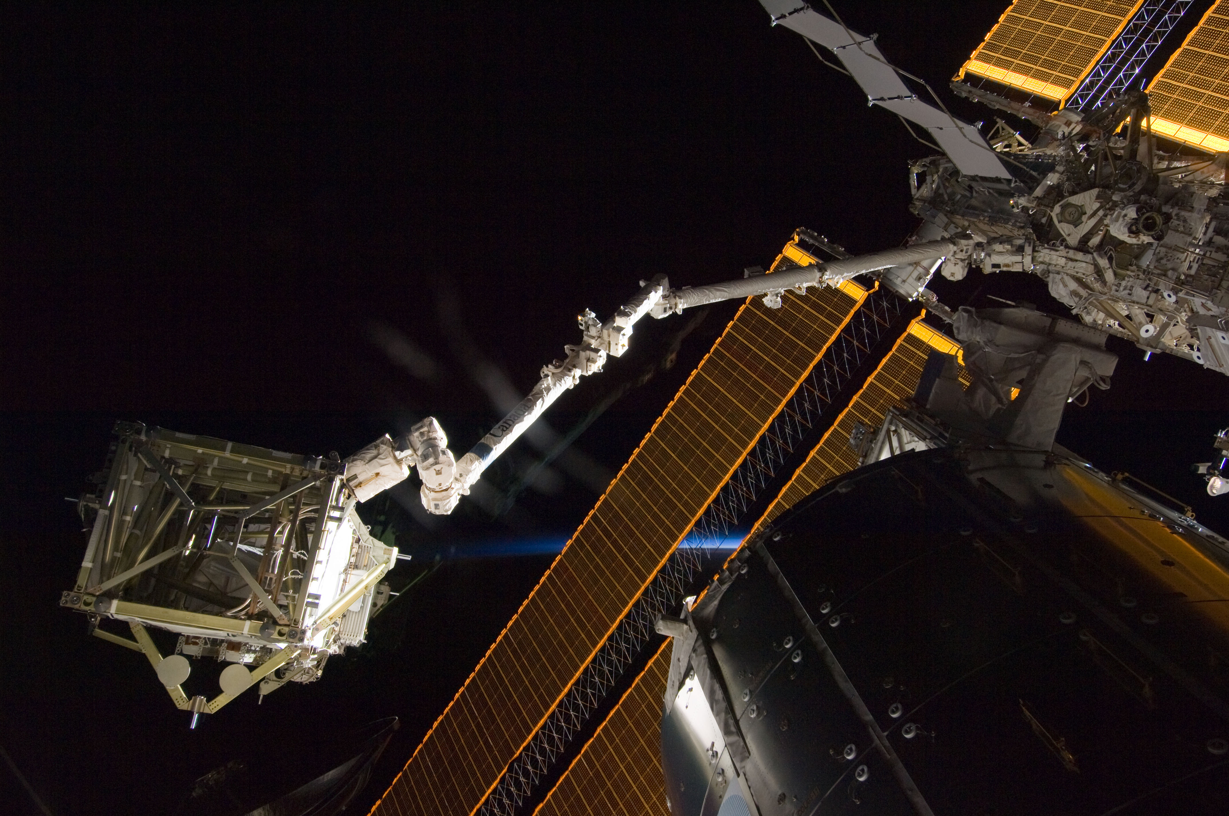 The International Space Station's robotic Canadarm2, the S6 truss segment was photographed by a STS-119 crewmember while Space Shuttle Discovery is docked with the station. The S6 truss segment was moved from Discovery's cargo bay by the shuttle's remote manipulator system (RMS) and handed off to the station's Canadarm2 where it will remain in an overnight parked position. Also visible in the image are the Columbus laboratory, starboard truss and solar array panels.